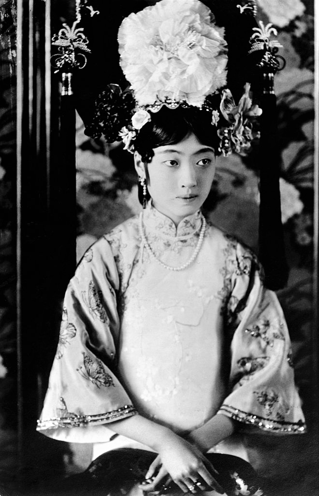 Photograph of the Qing Dynasty Empress Gobele Wan-Rong of XuanTong.